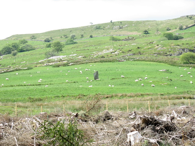 Llech Idris seen across a clear felled plantation